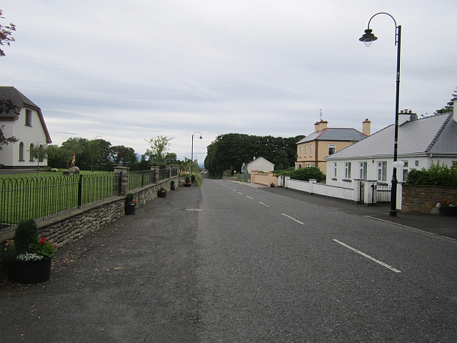 Bunnyconnellan